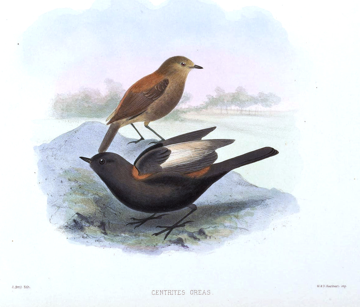 Centrites oreas = Lessonia oreas